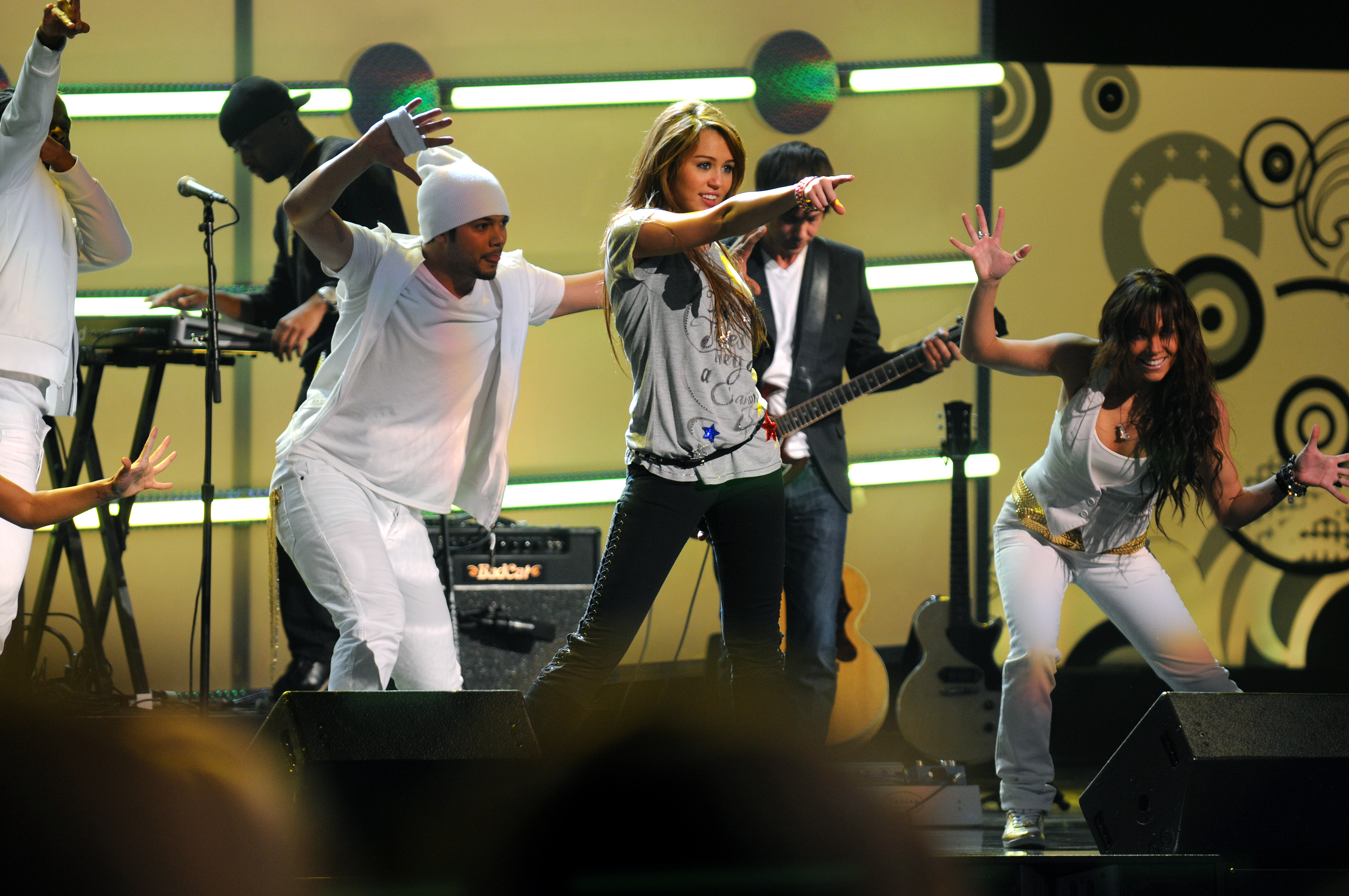 Miley Cyrus performs at the “Kids Inaugural: We Are the Future” concert at the Verizon Center in downtown Washington, D.C., Jan. 19, 2009.